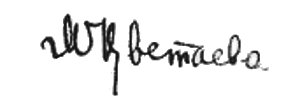 Tsvetaeva signature